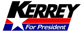 Bob Kerry presidential campaign, 1992